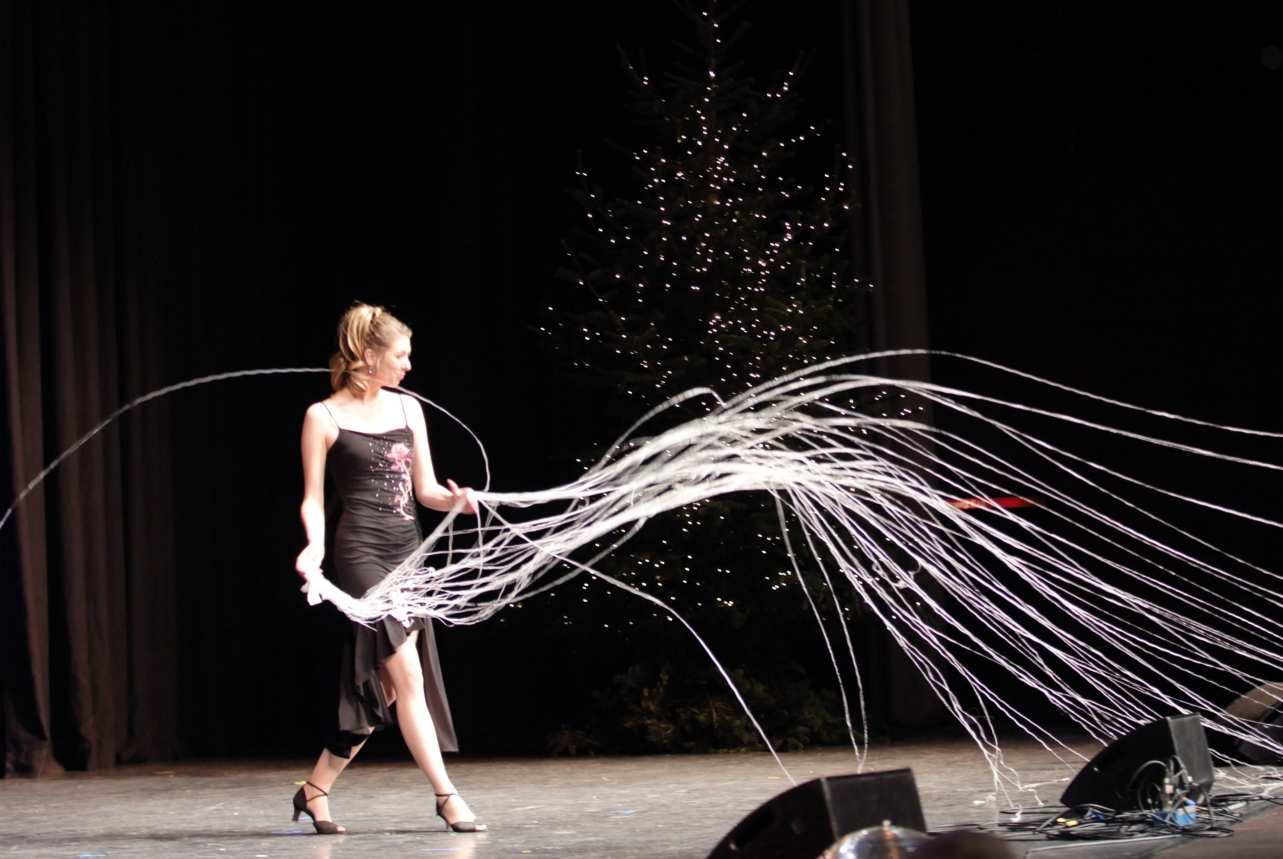 Alana, magician